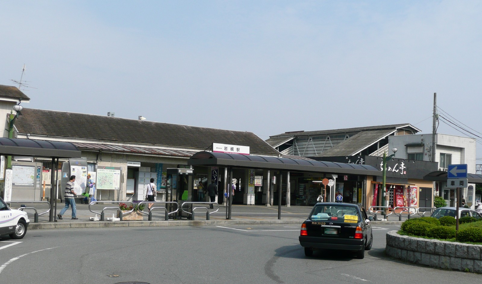 Iwatsuki Station on the Tobu Noda Line